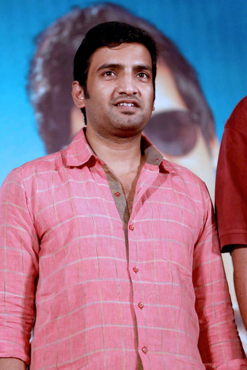 Santhanam at Vallavanukku Pullum Aayudham Thanksgiving Meet